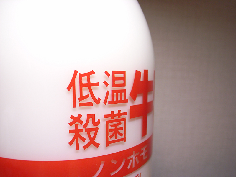 A bottle of pasteurized milk. See the photographer's blog.